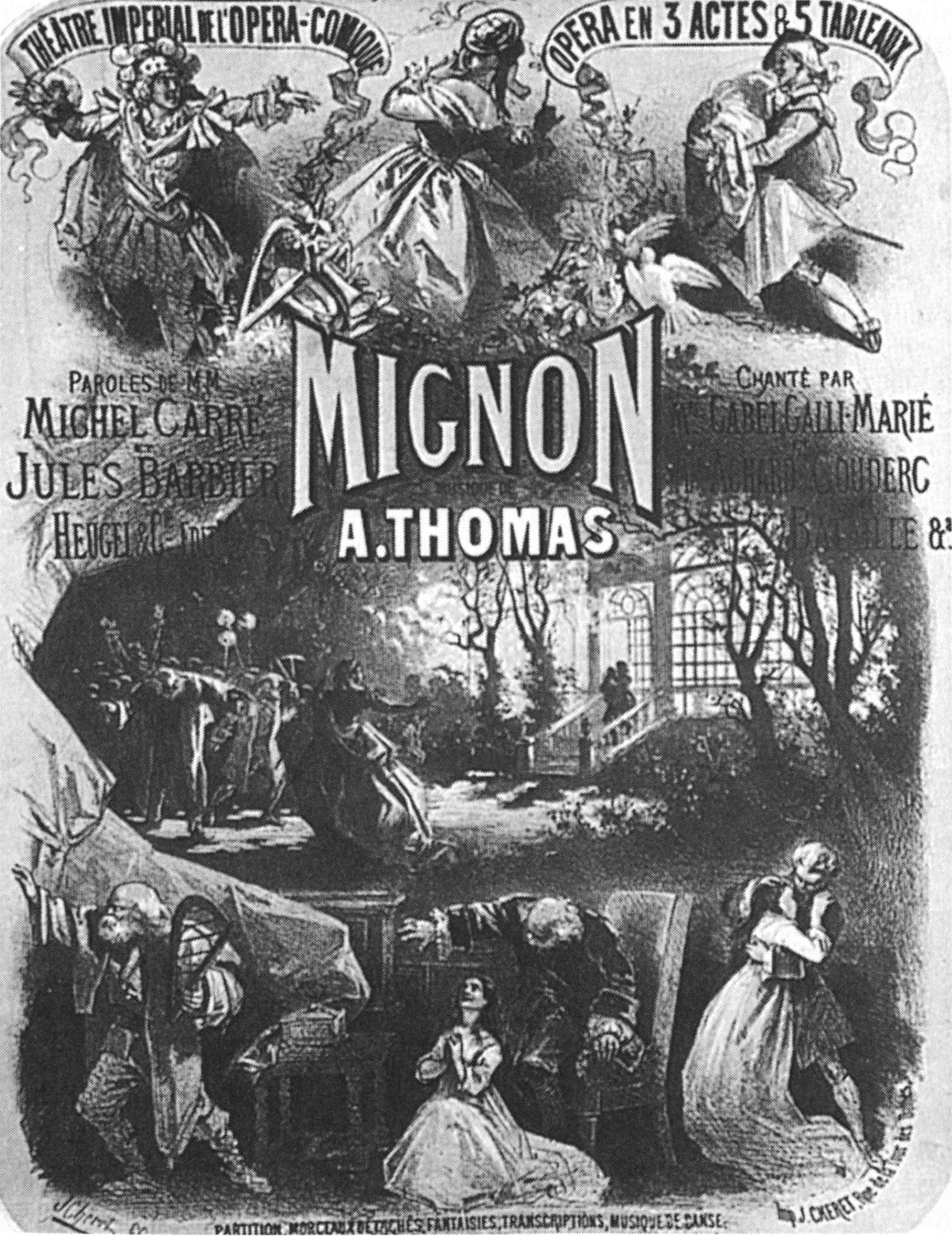 Poster created by Jules Chéret for the 1866 premiere of the opera Mignon by Ambroise Thomas.